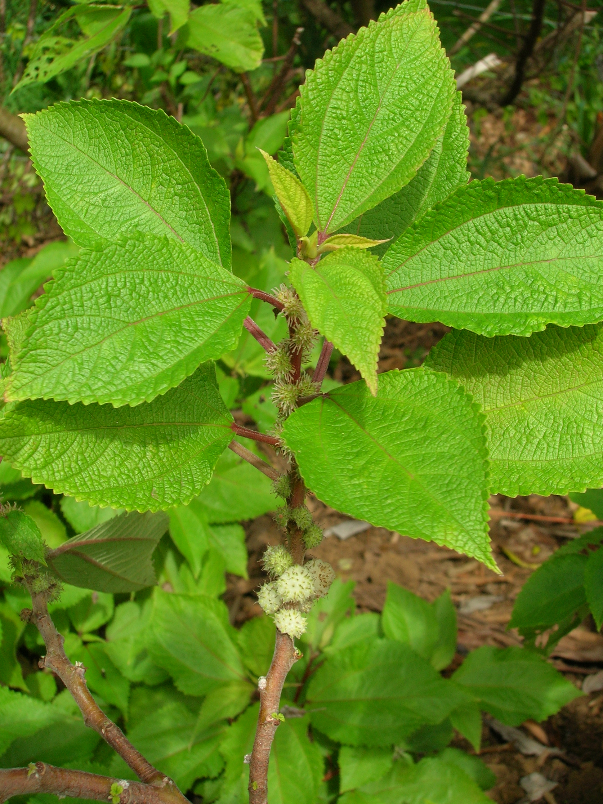 Pipturus albidus (fruit and leaves). Location: Maui, Hoolawa Farms